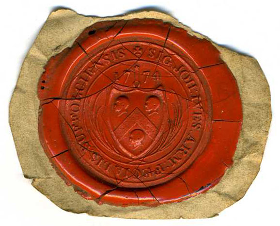 Impression of the Seal of John Ives as Suffolk Herald Extraordinary, 1774: "+ SIG : JOH : IVES. ARM : FECIALIS : SUFFOLCIENSIS"